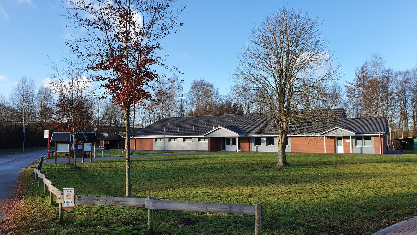 Moorhalle in Königsmoor